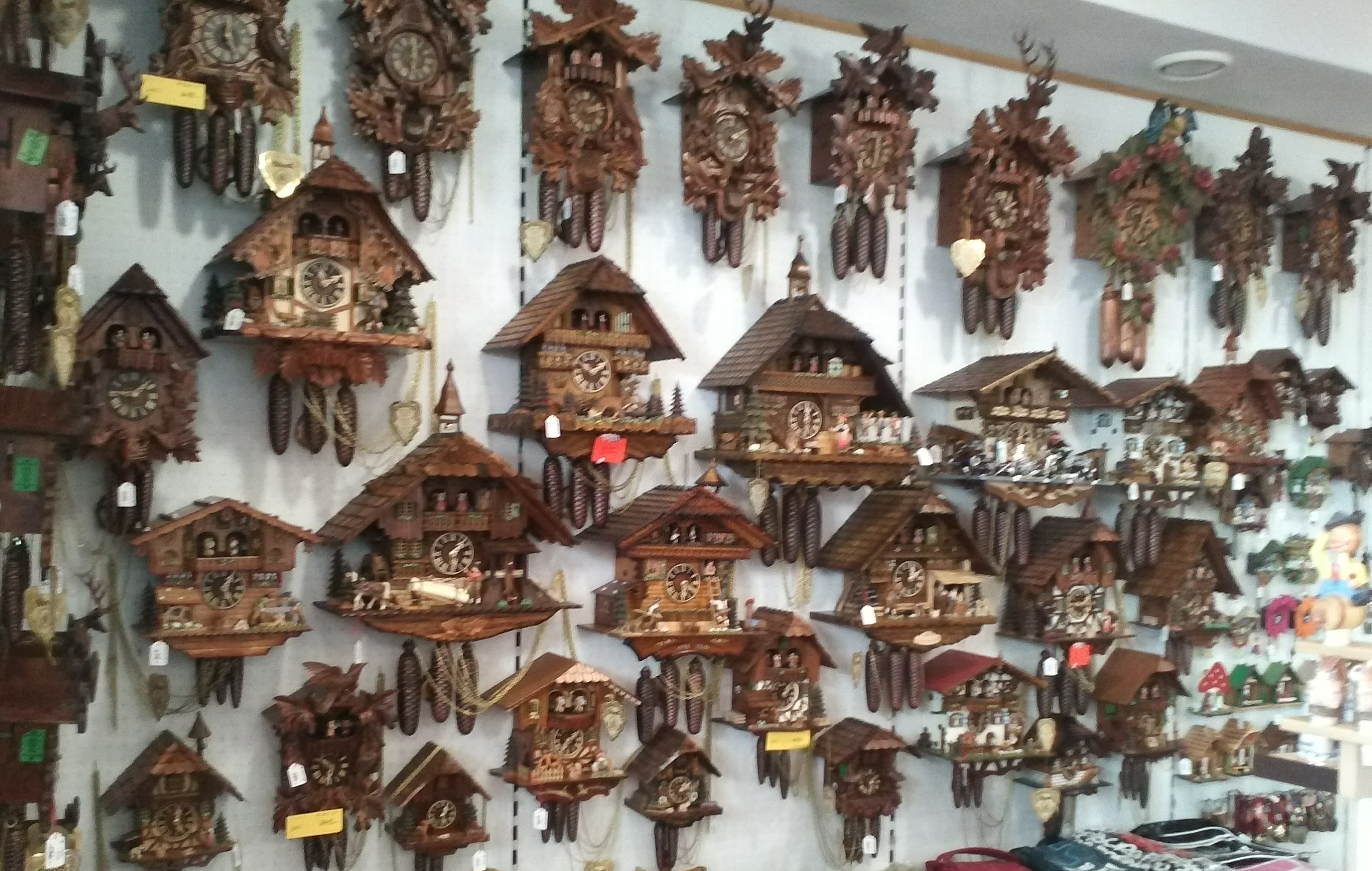 Cuckoo clocks in Freiburg